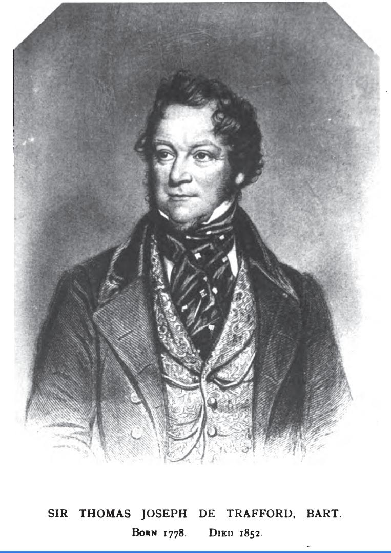 A portrait of Sir Thomas Joseph de Trafford (22 March 1778 – 10 November 1852), a member of a prominent family of English Roman Catholics. He served as commander of the Manchester and Salford Yeomanry at the time of the Peterloo Massacre.